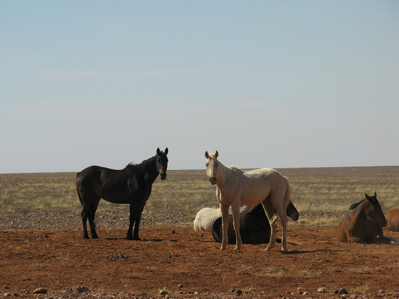 Brumbies next to the Innamincka Track